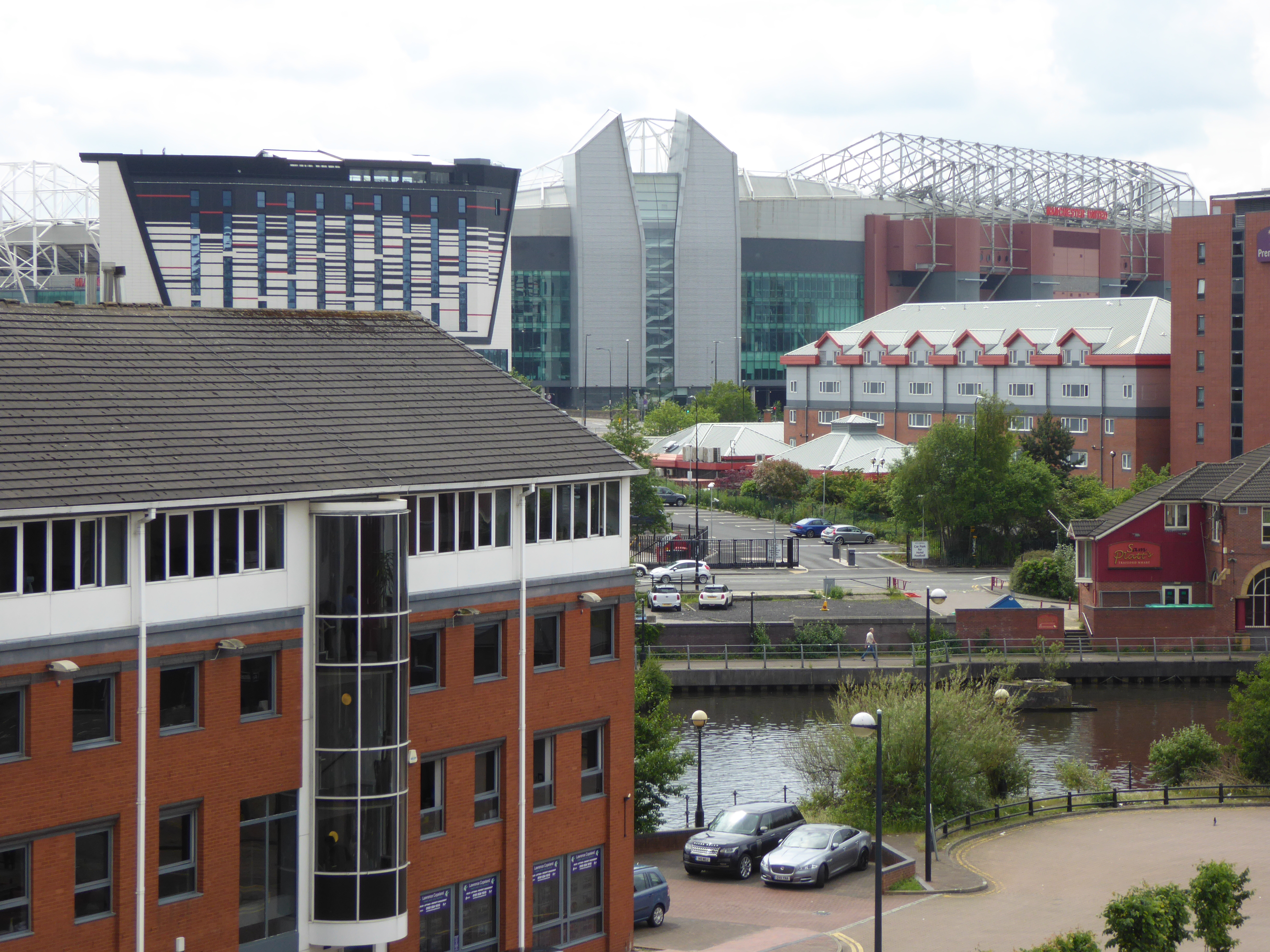 Looking across Clippers Quay to Hotel Football (left) and Sir Alex Ferguson Stand, Old Trafford (right), Salford Quays, Salford, Greater Manchester, England, June 2016